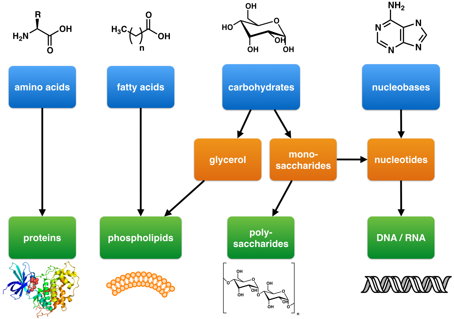 Basic molecules of life